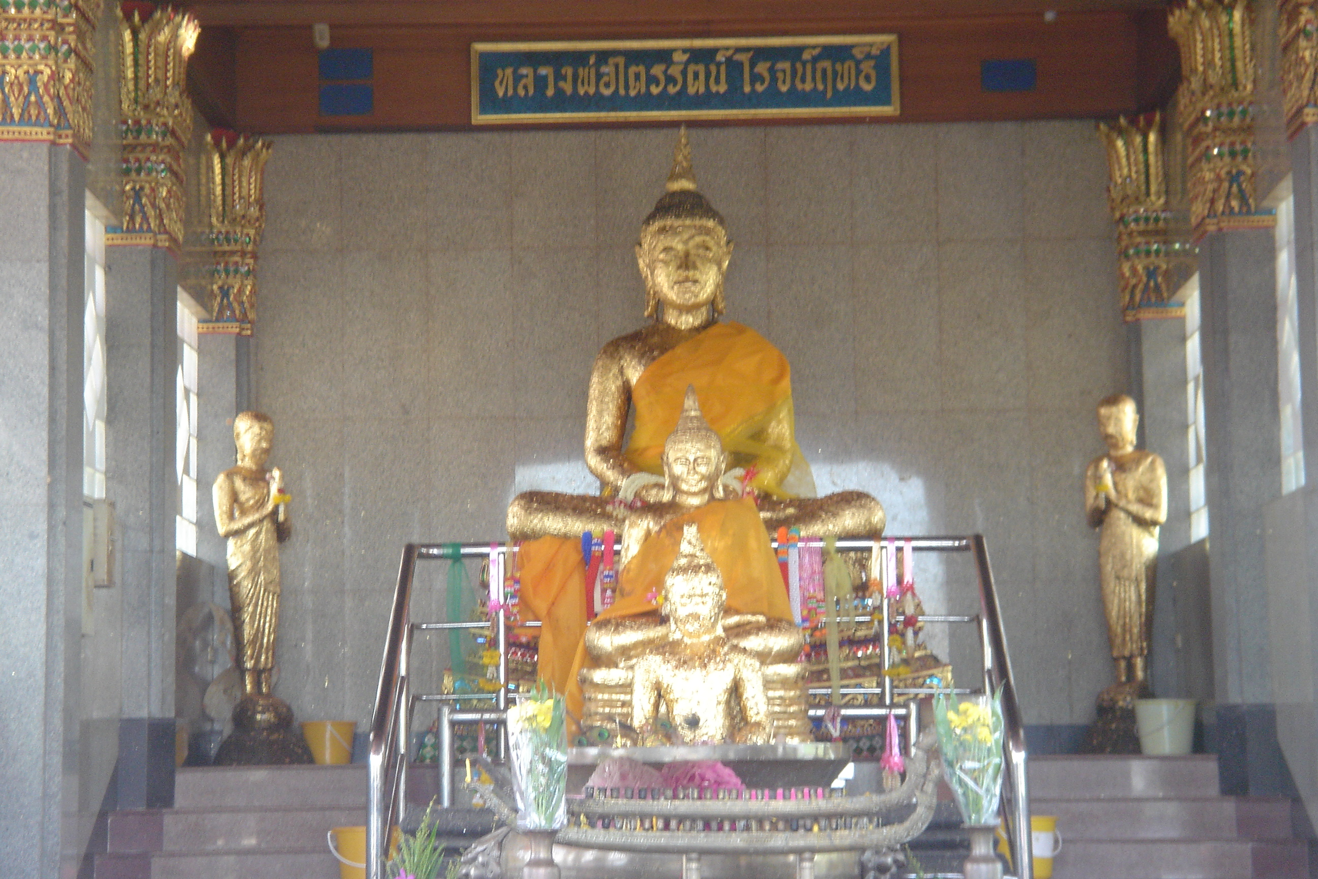 Prasatsit Temple